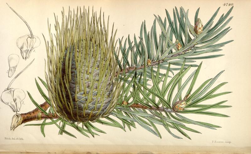 Illustration of Abies bracteata